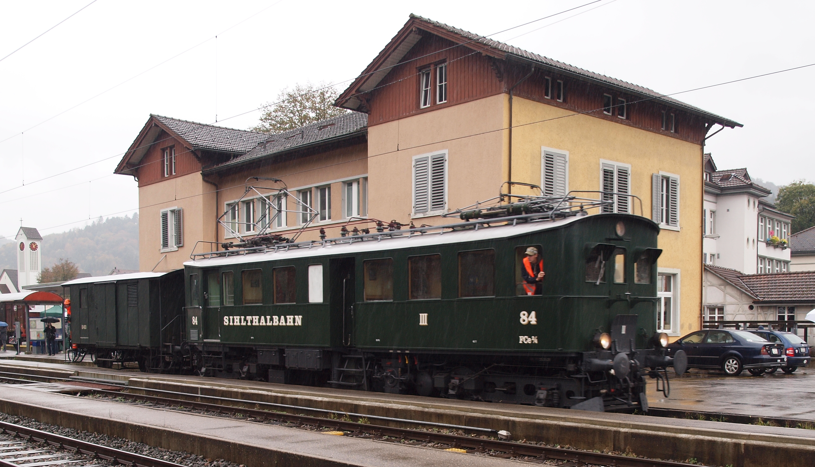 The historic railcars CFe 2/4 No. 84 of Sihltalbahn at Bauma railway station.